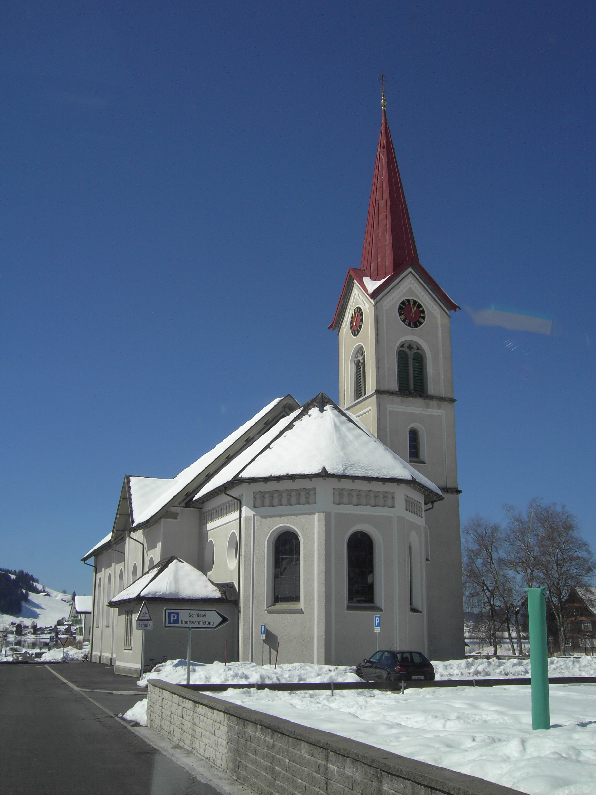 rom.-cath. Church of Willerzell SZ in Switzerland